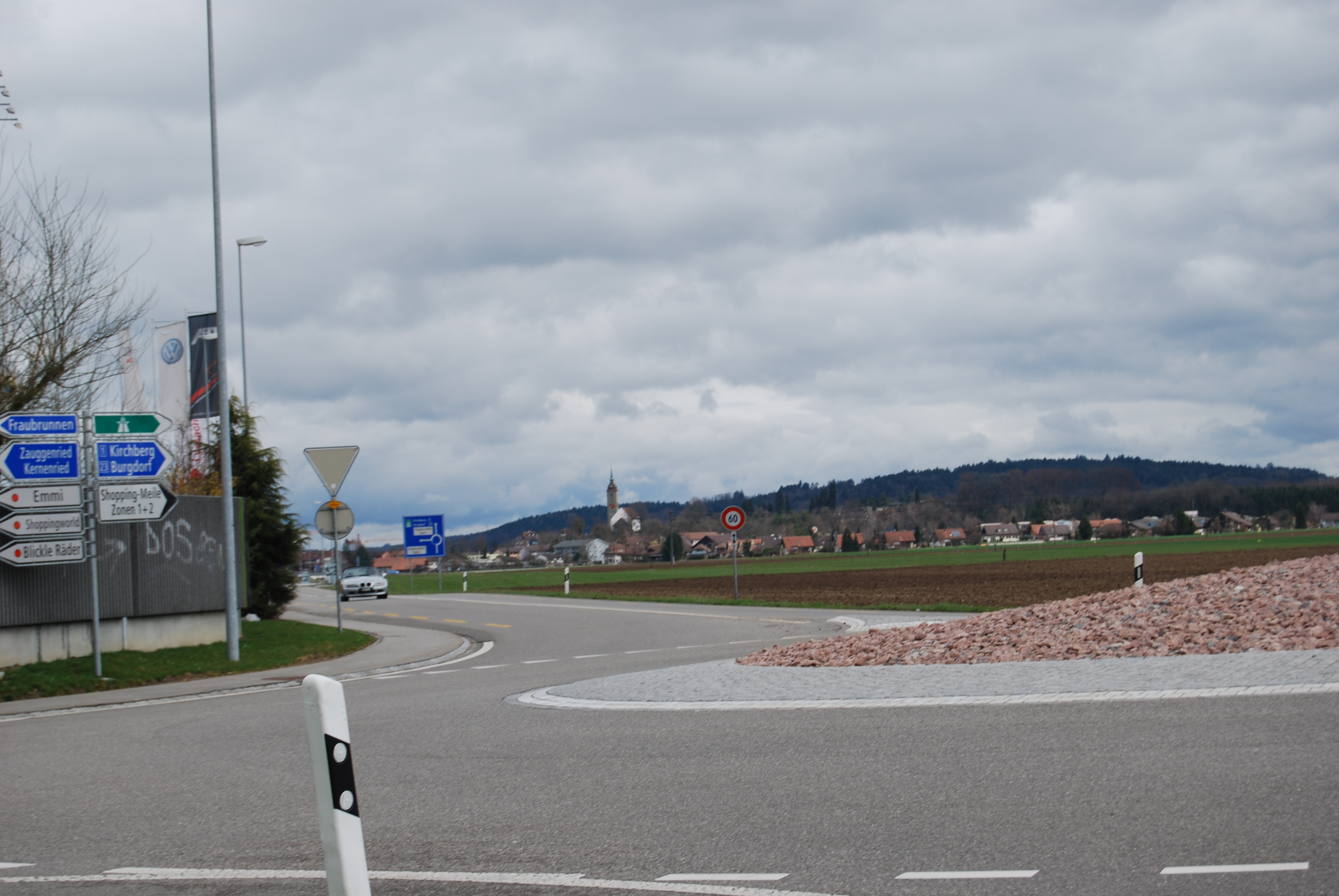 Kirchberg, canton of Bern, SwitzerlandEsperanto: Kirchberg, Kantono Berno, Svislando